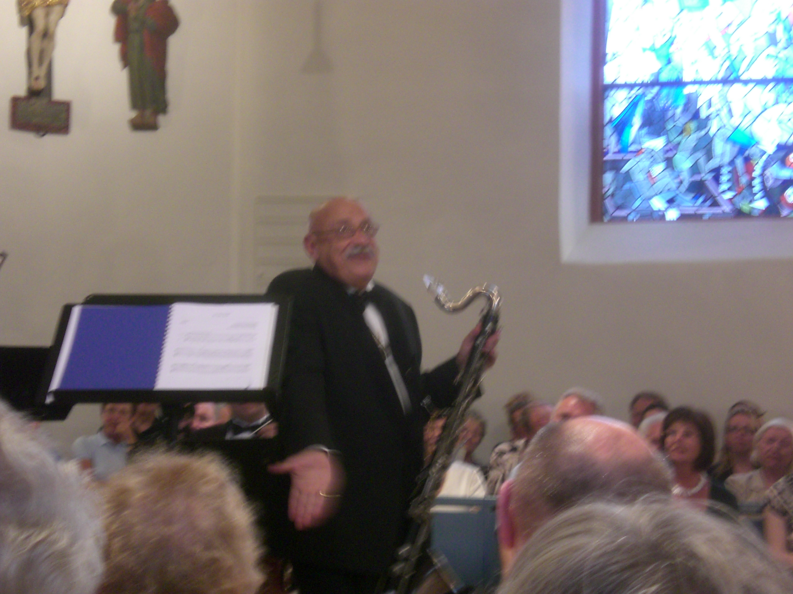 Giora Feidman in Bickenbach (Germany, August 2nd, 2008)